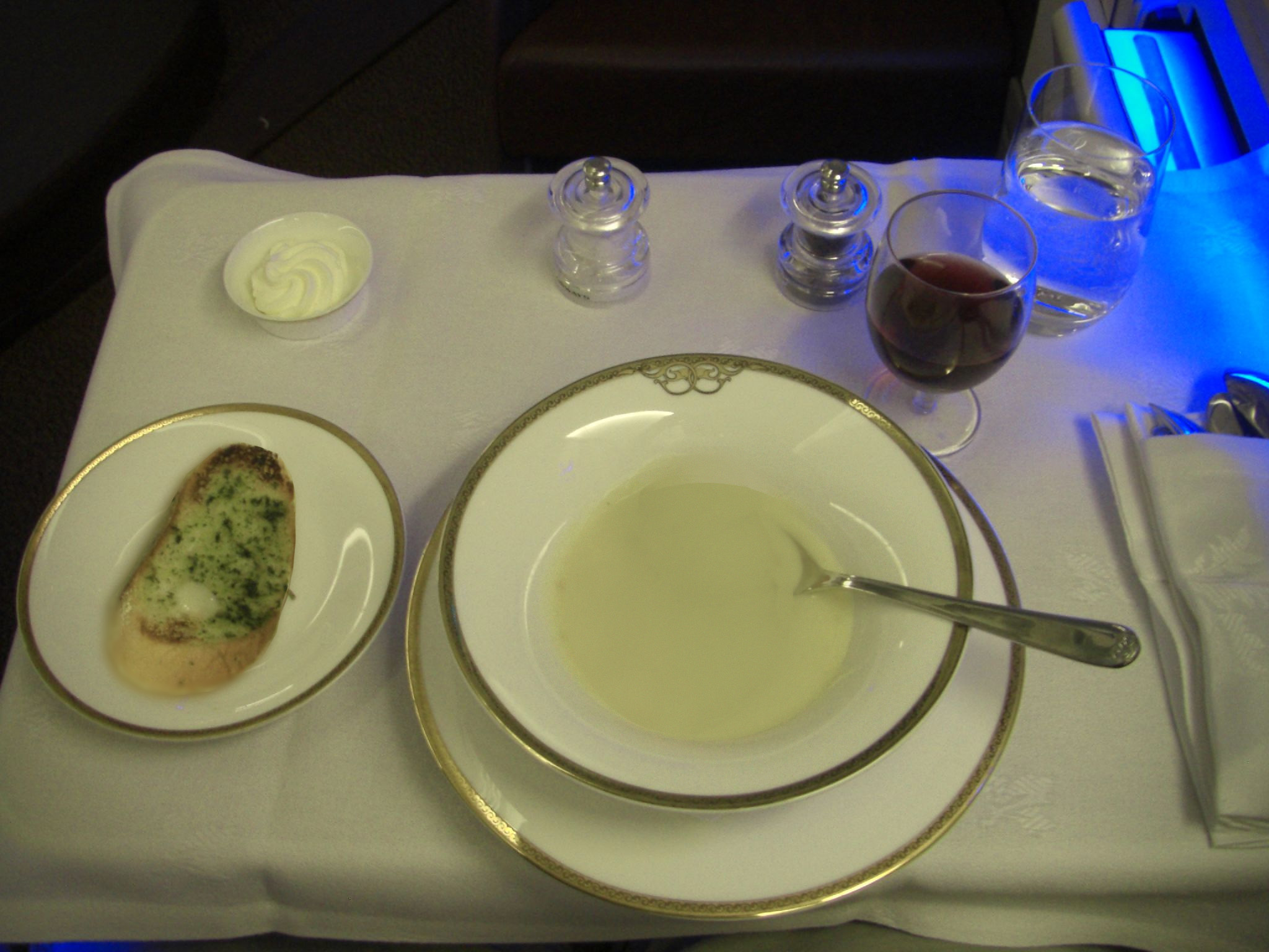 Jet Airways business meal. Photo modified for item placement by Altair78.